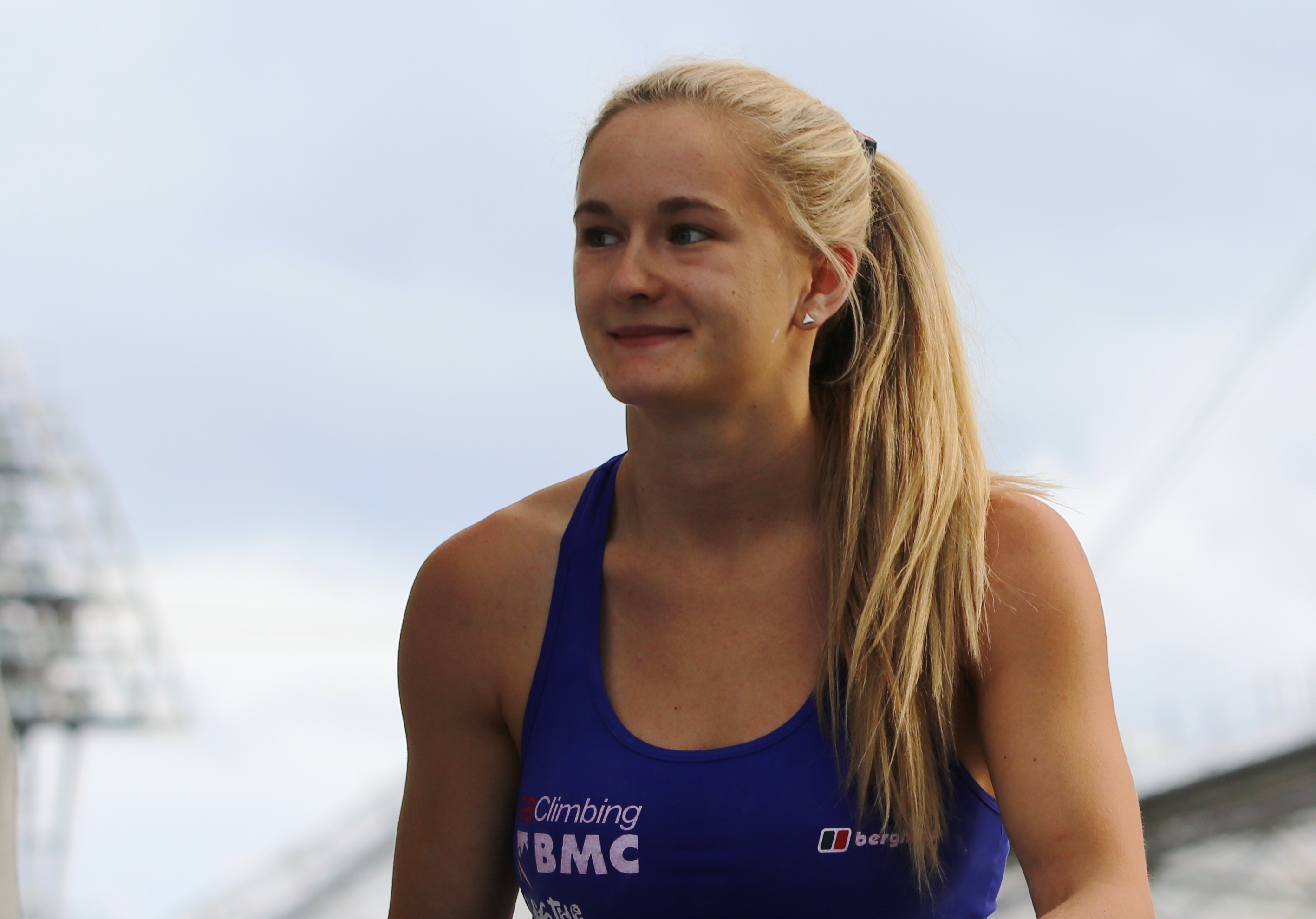 Shauna Coxsey, sports climber from Great Britain, at the Boulder Worldcup 2017 in Munich, Germany